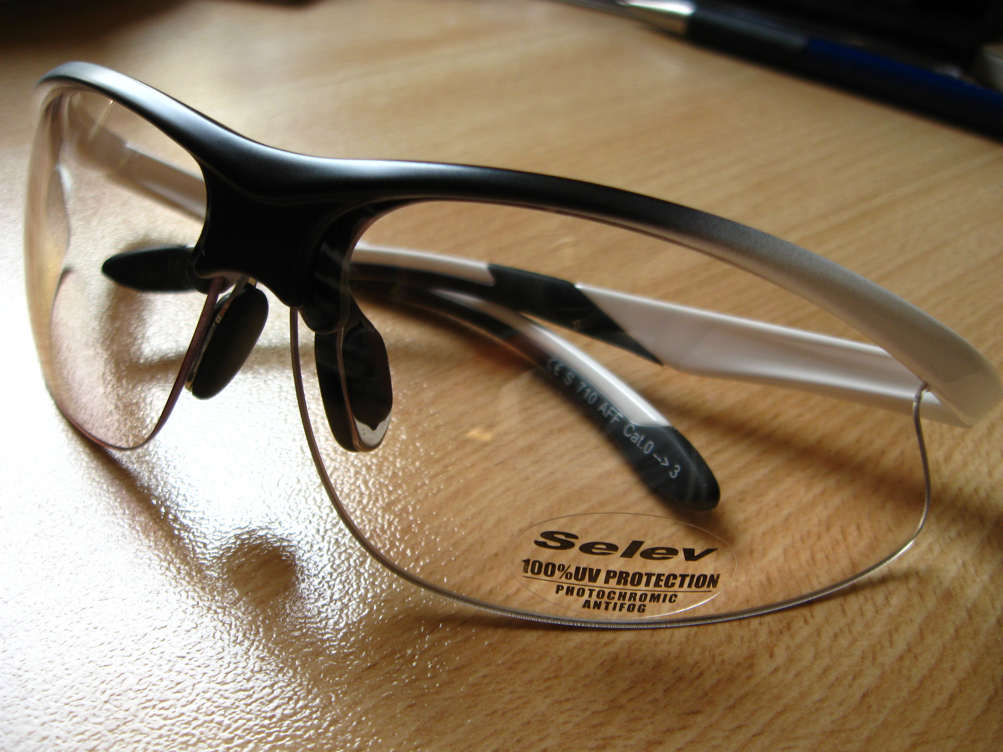 Selev cycling glasses with antifog photolenses.